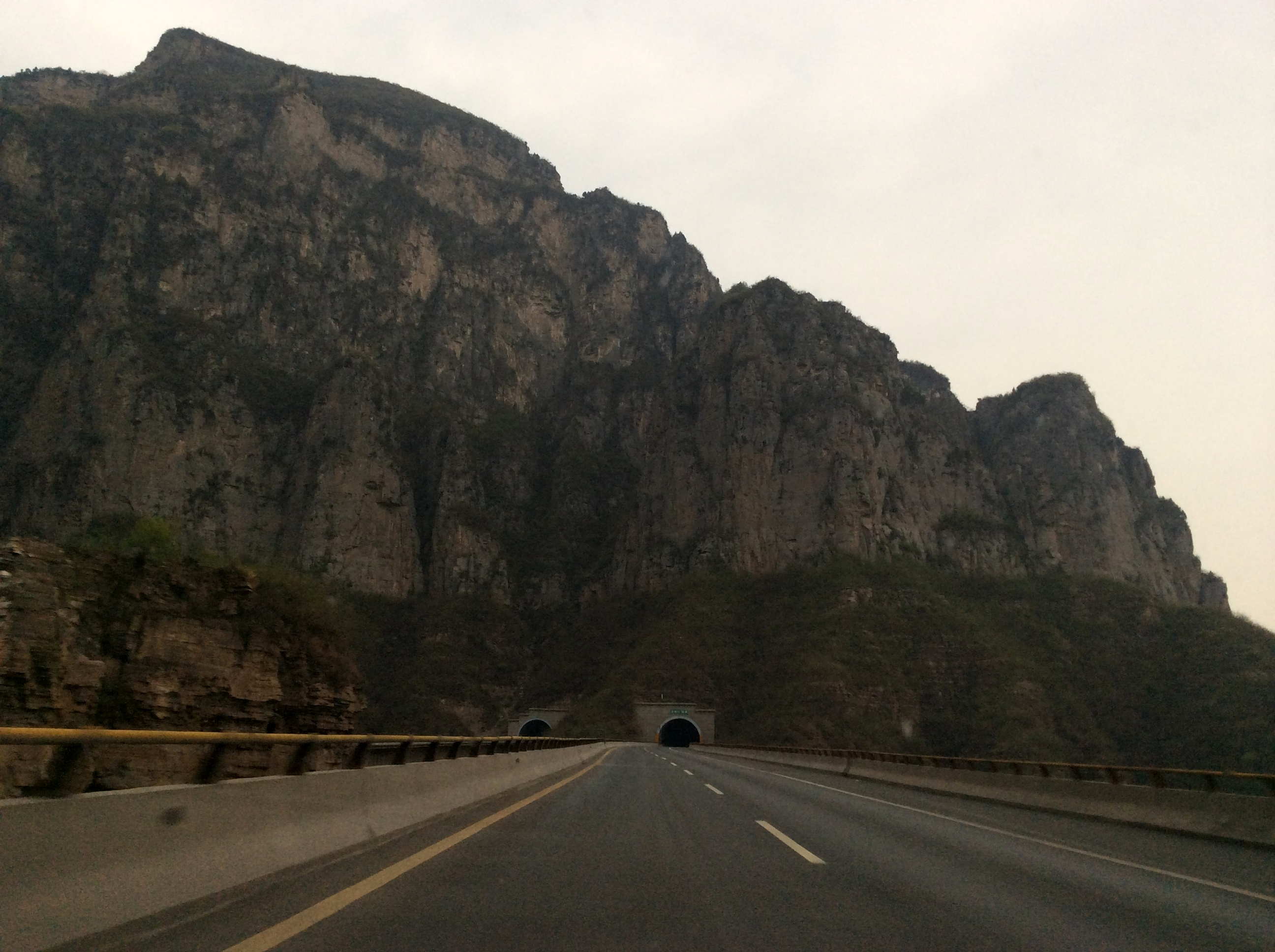 The G55 Expressway through the Zhongtiao Mountains, on the border between Henan and Shanxi, China